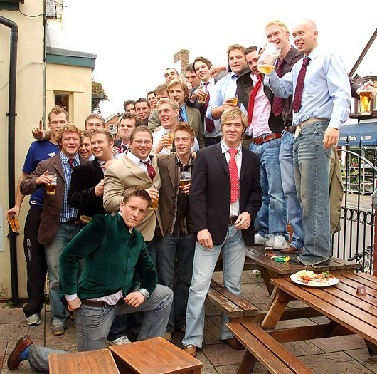 Rugby. Third half. Tercer Tiempo. Troisième mi-temps. Hobgoblin-Bullingdon road-Oxford. EDITED PICTURE (frag)